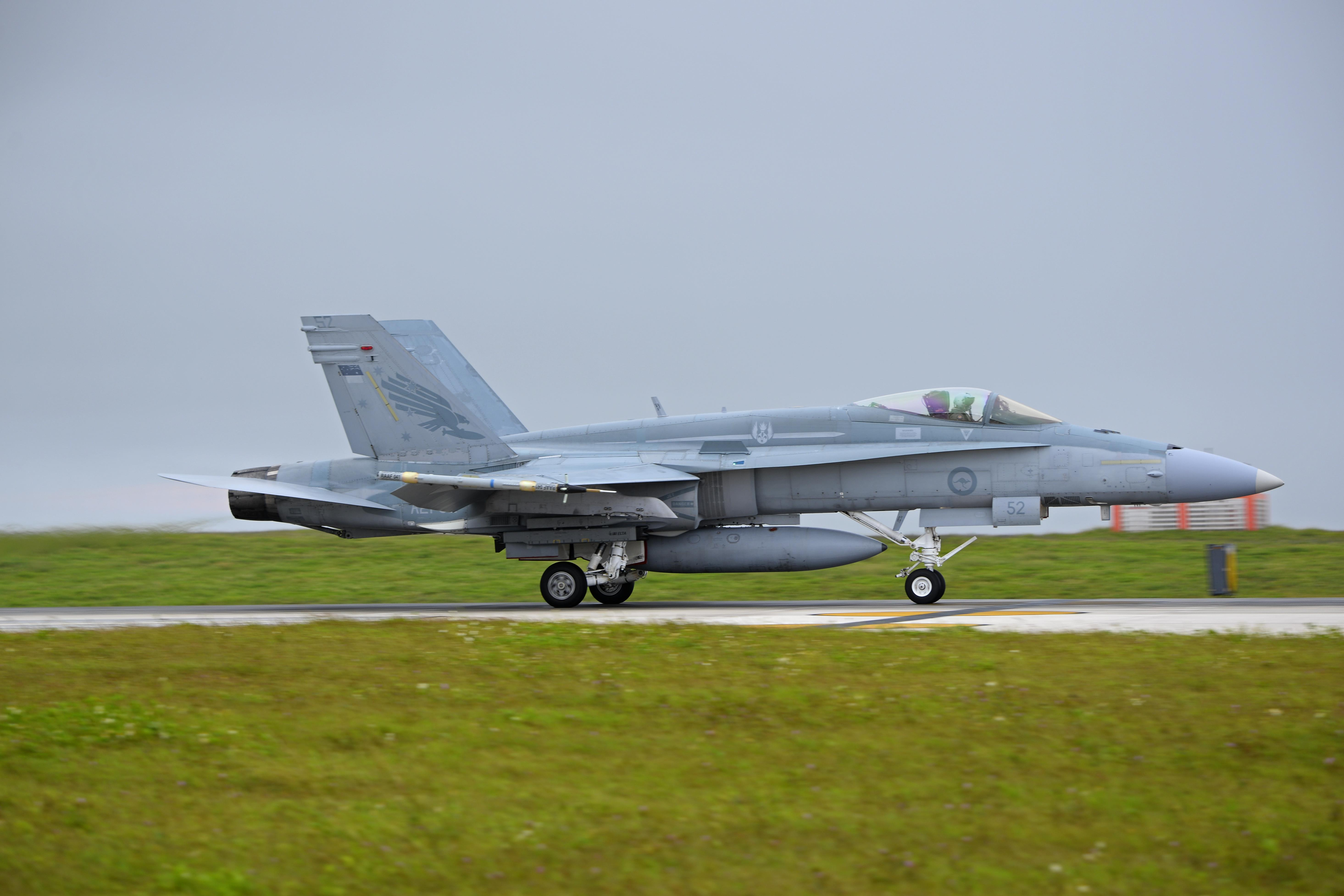 A Royal Australian Air Force F/A-18A Hornet assigned to No. 3 Squadron, Royal Australian Air Force Base, Williamtown, Australia, lands during Exercise Cope North 2017 at Andersen Air Force Base, Guam, Feb. 16, 2017.